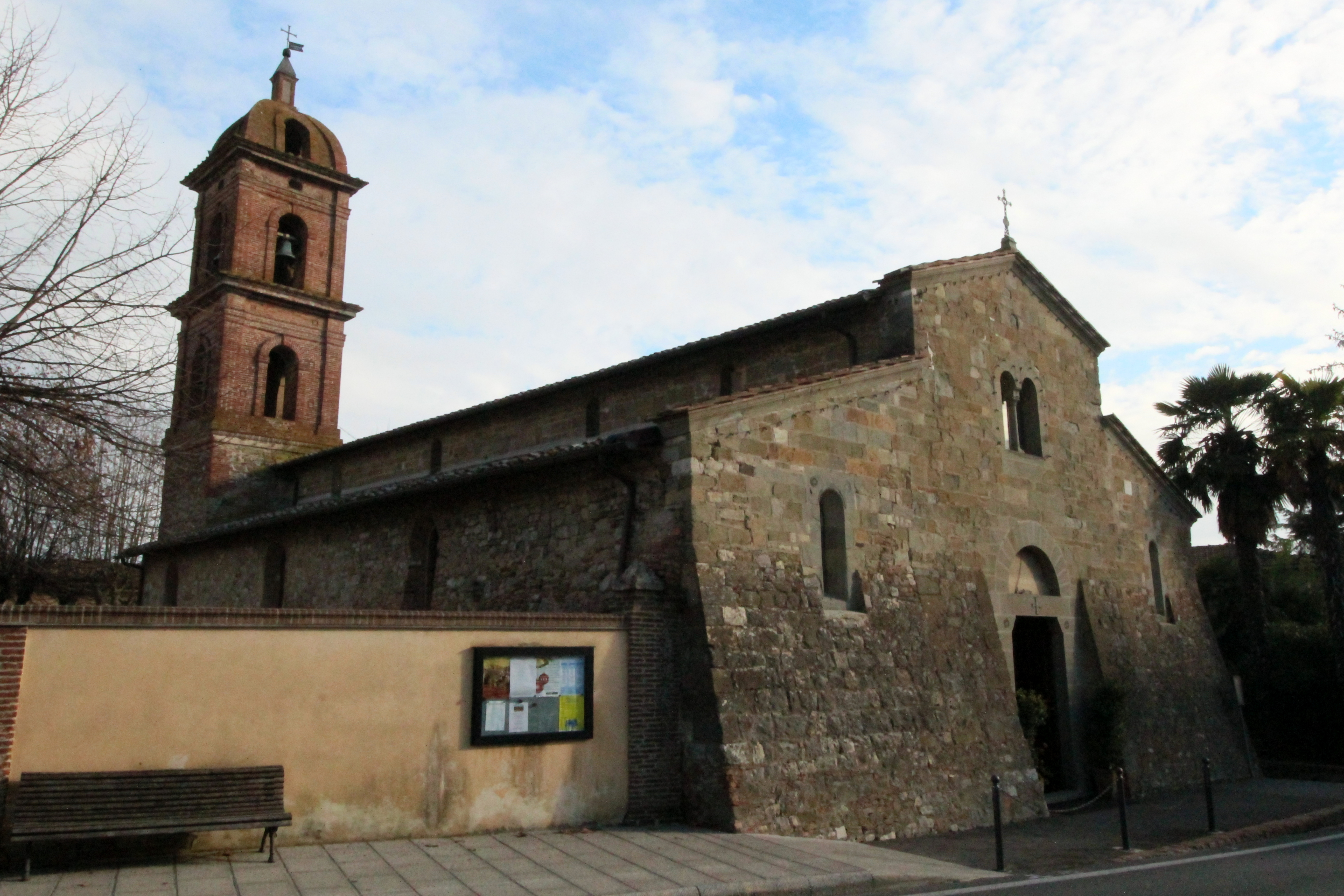 Church San Pietro ad Mensula, Pieve di Sinalunga, Sinalunga, Valdichiana, Province of Siena, Tuscany, Italy